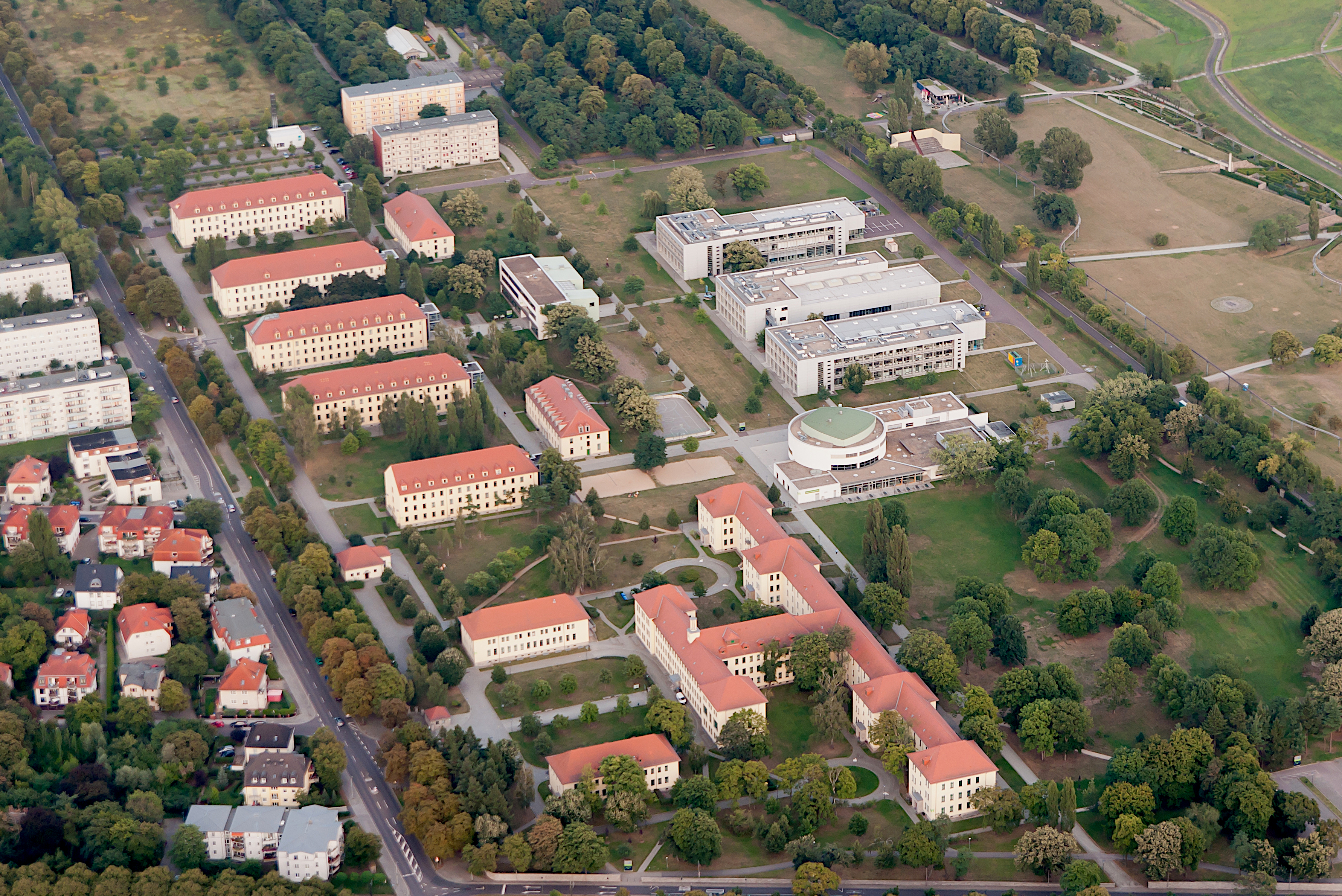 Aerial photograph of University of Applied Sciences in Magdeburg